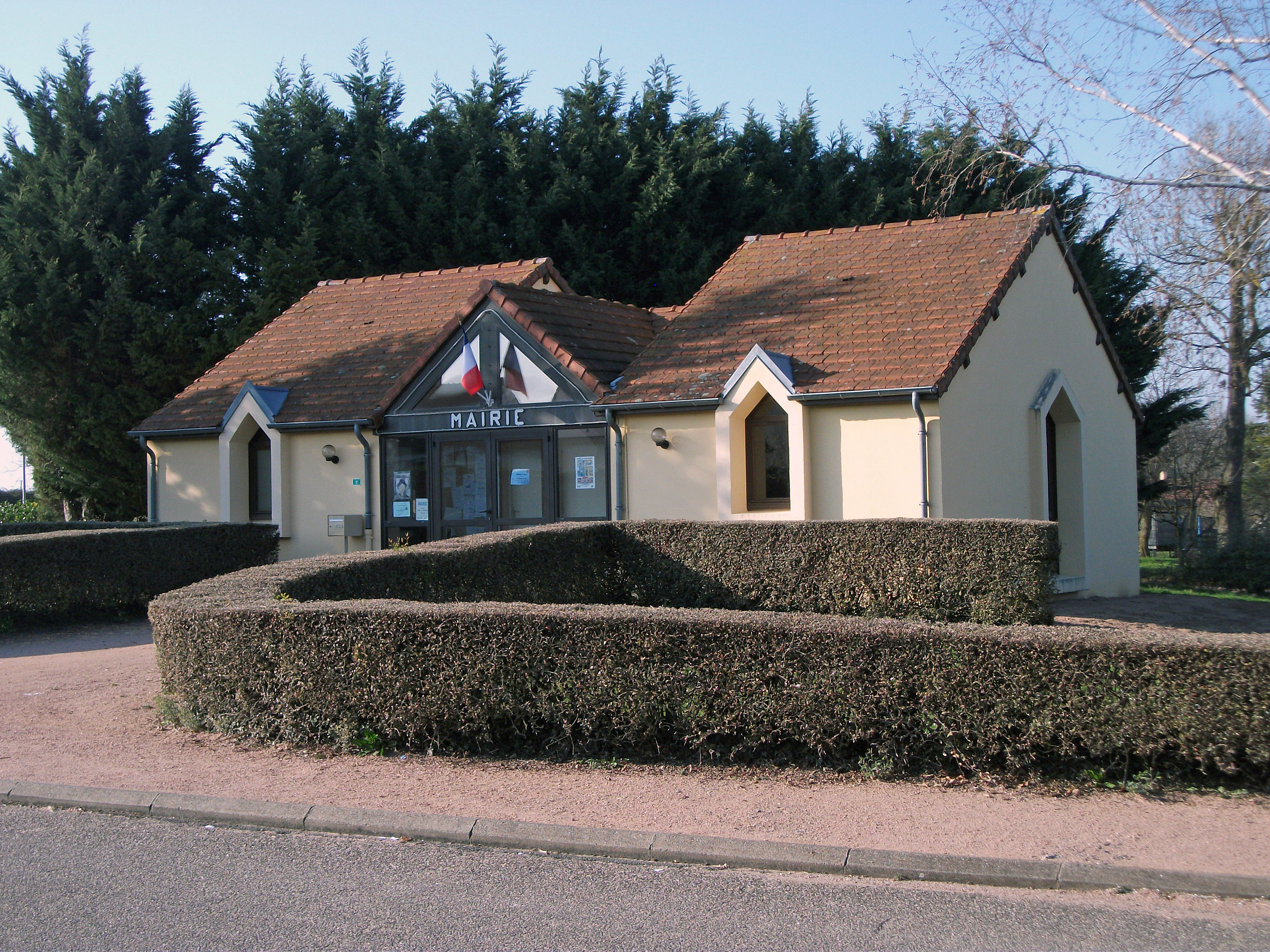 Town hall of Saint-Félix, Allier [10382]